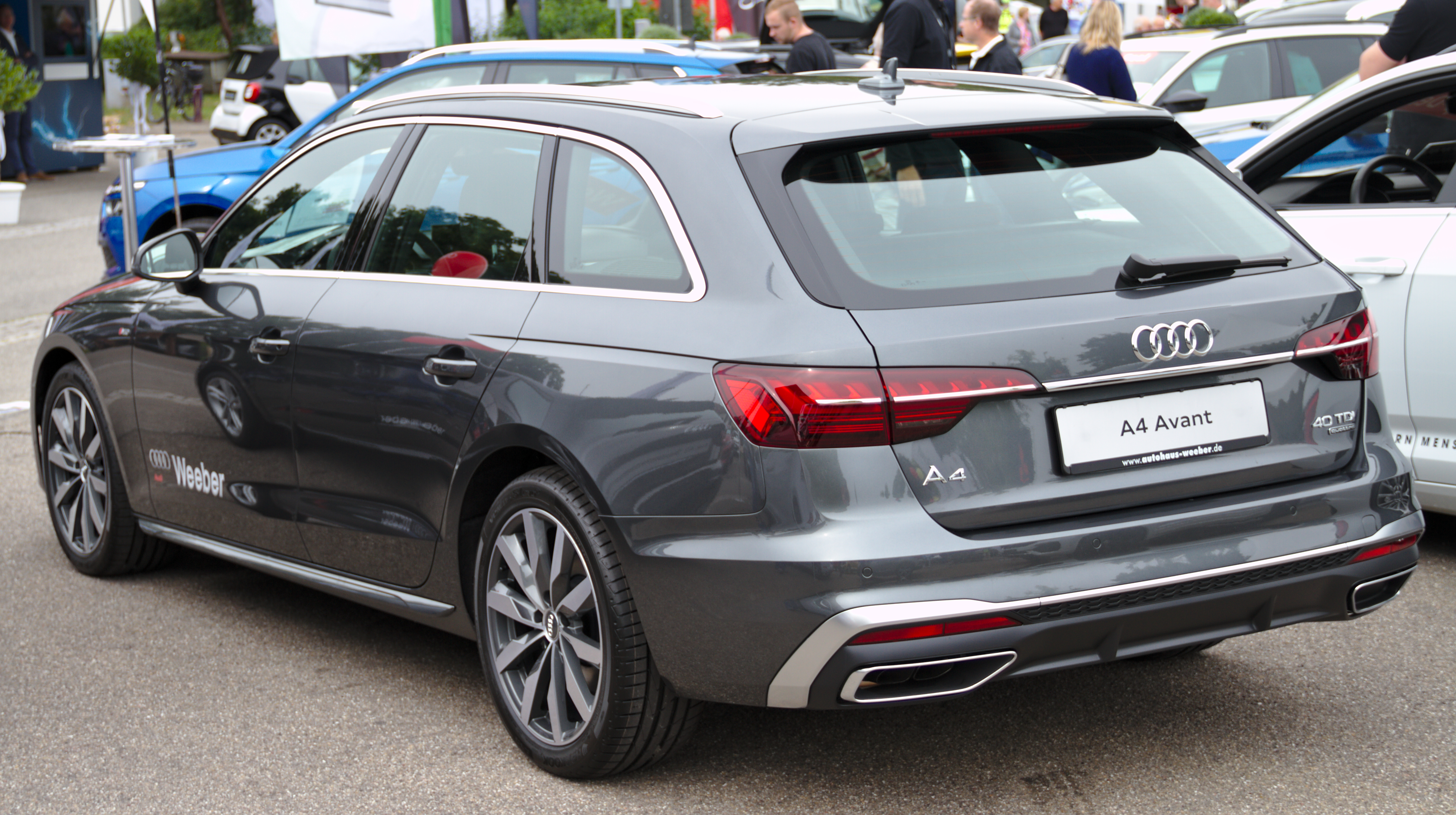 Audi_A4_Avant_B9 at Leonberger Autoschau 2019